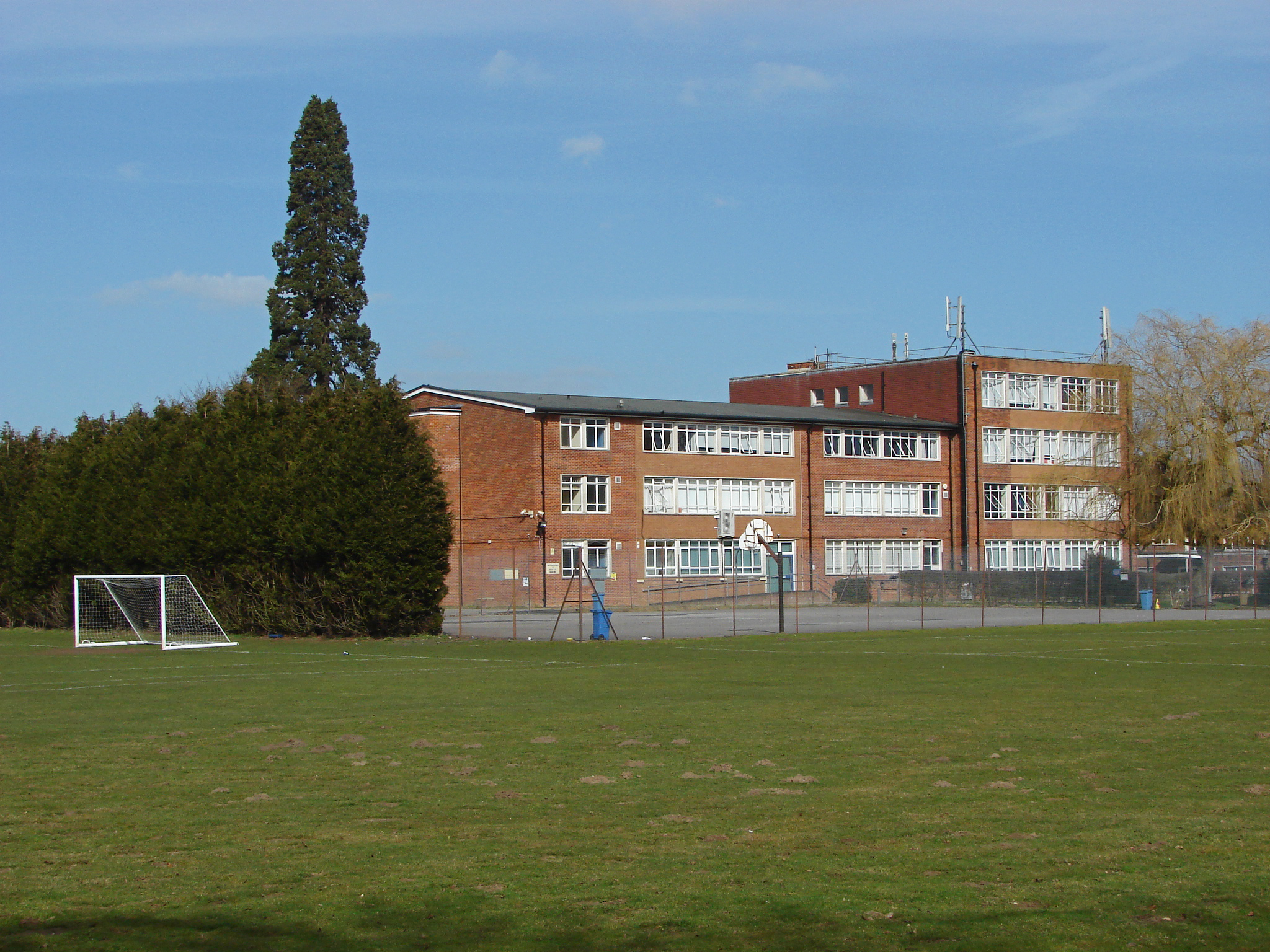 A picture of Broadwater School, in March 2015. Noticeable is the large tree in the background, planted by George Marshall.